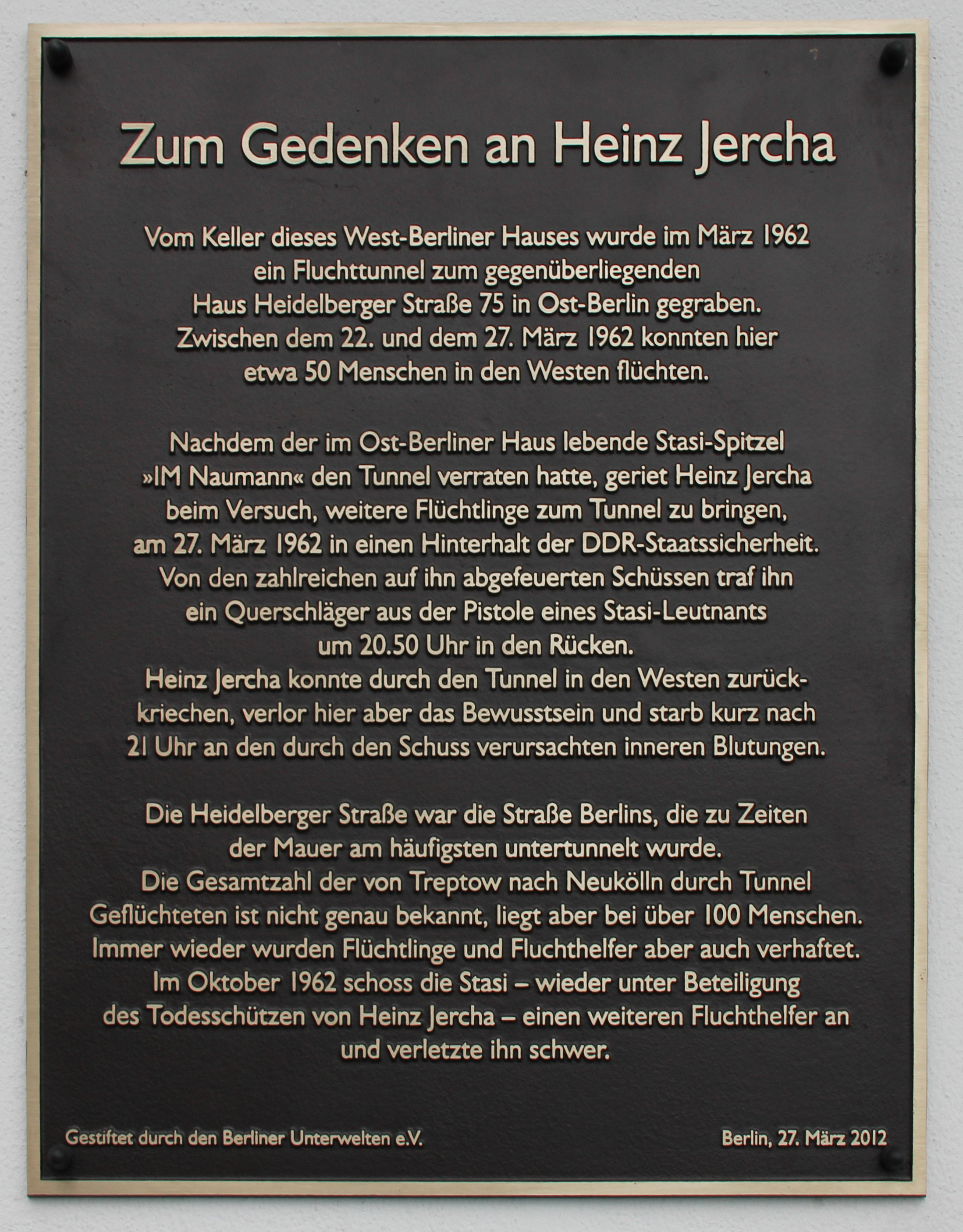 Memorial plaque, Heinz Jercha, Heidelberger Straße 35, Berlin-Neukölln, Germany